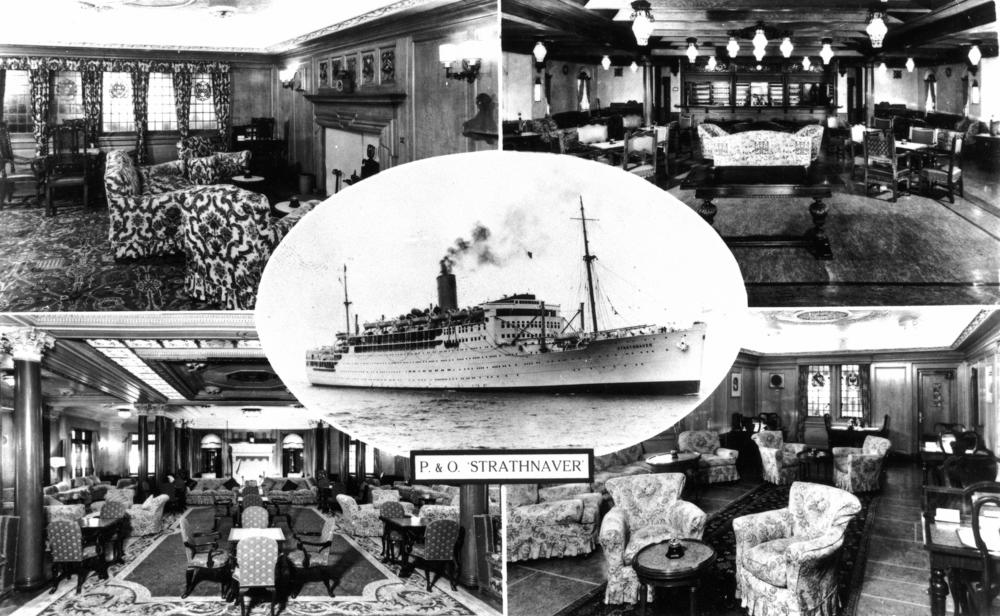 Strathnaver (ship)